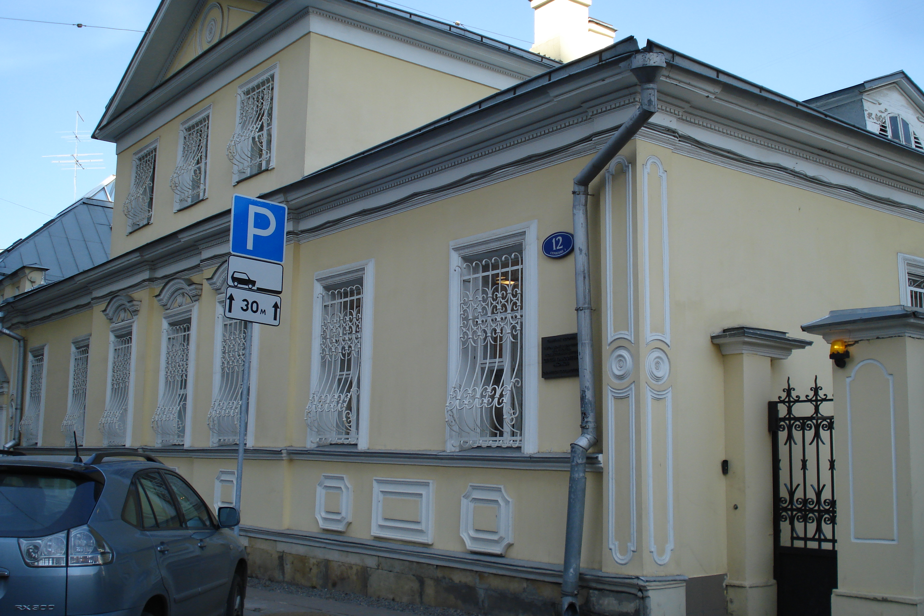 Bolshoy Afanasyevsky Lane, 12 (Moscow). The house where writer Sergei Aksakov lived in 1829-1833.